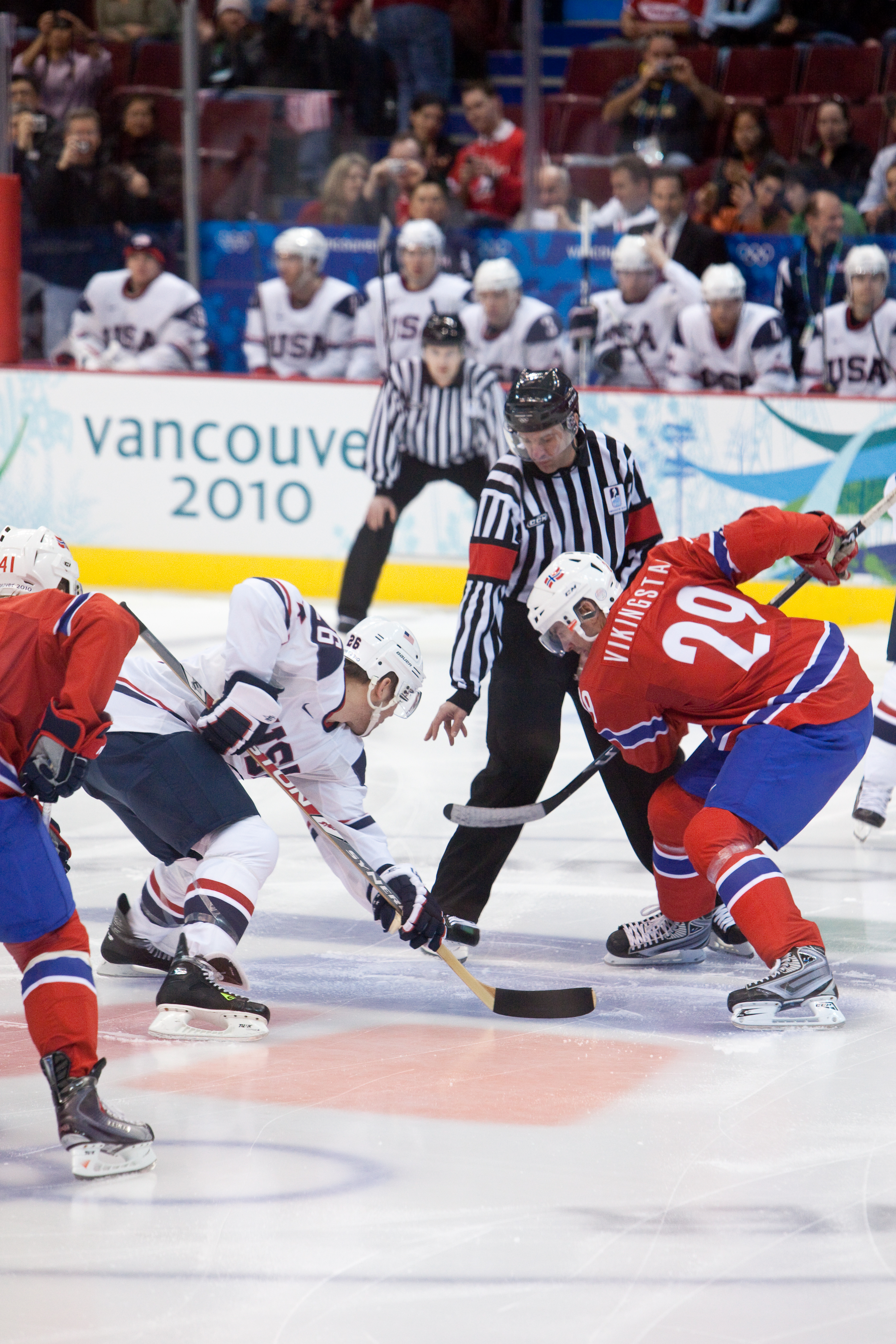 Tore Vikingstad of Norway and Paul Stastny of the United States face off during the 2010 Winter Olympics